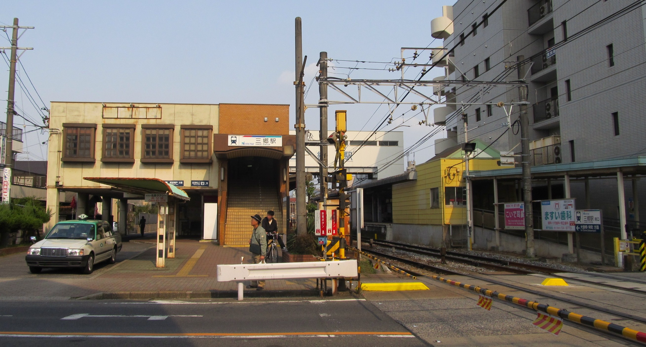 Nagoya Railroad Seto Line Sangō Station Building.